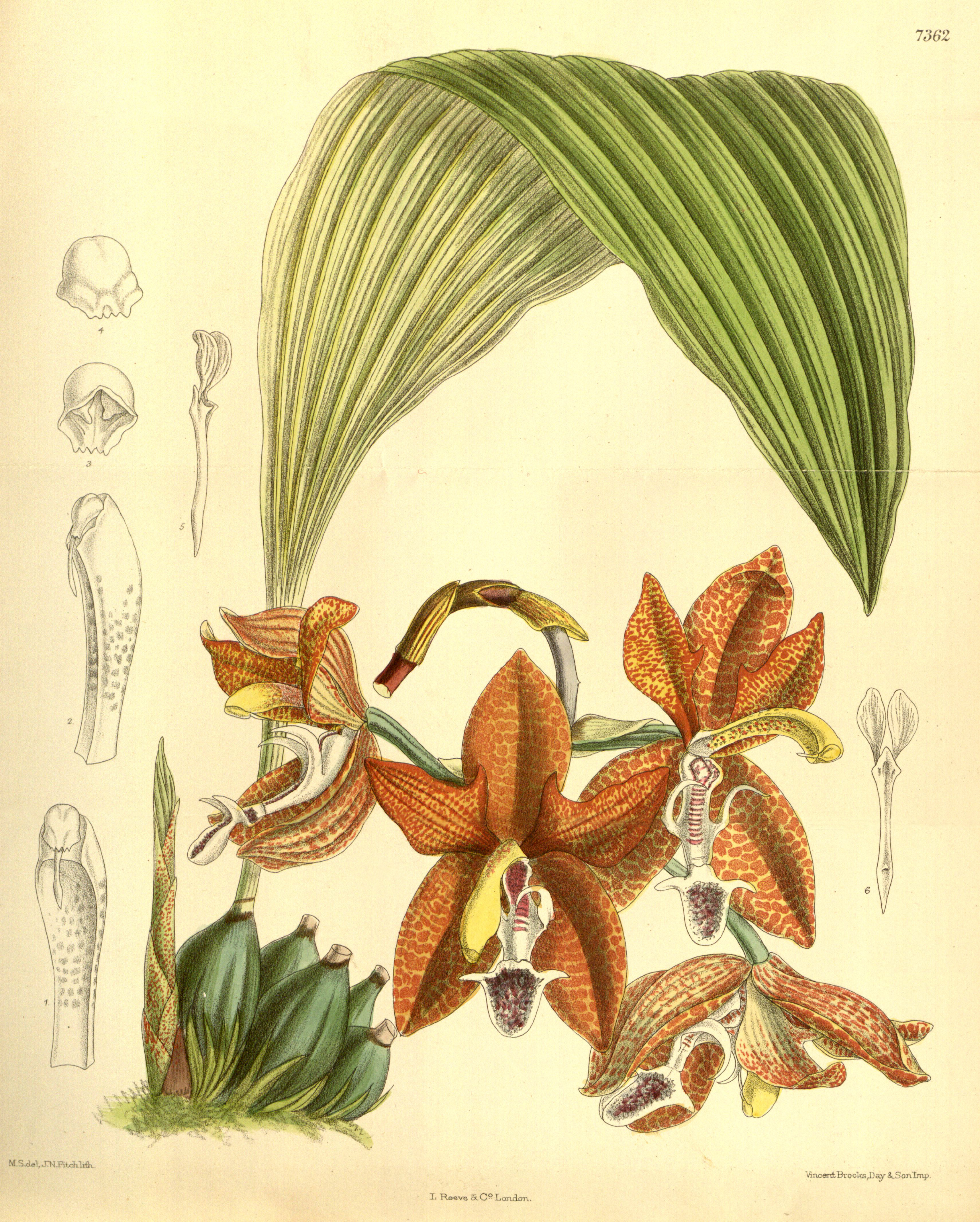 Illustration of Houlletia tigrina (as syn. Houlletia landsbergii)